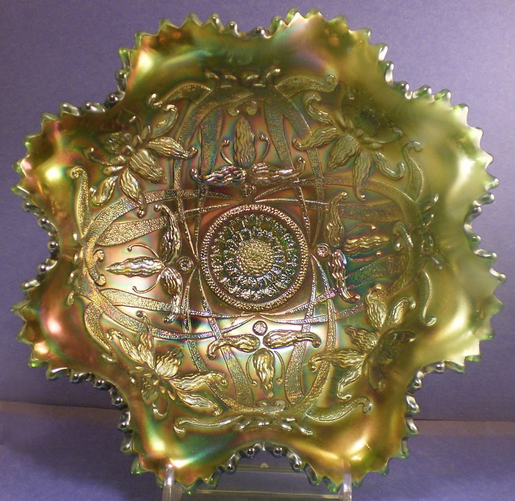 This is a Wishbone bowl made by the Northwood Glass company that went out of business in 1925. There are no copyright notices or marks on the piece. It stands about 5 inches tall and is about 8 inches across.